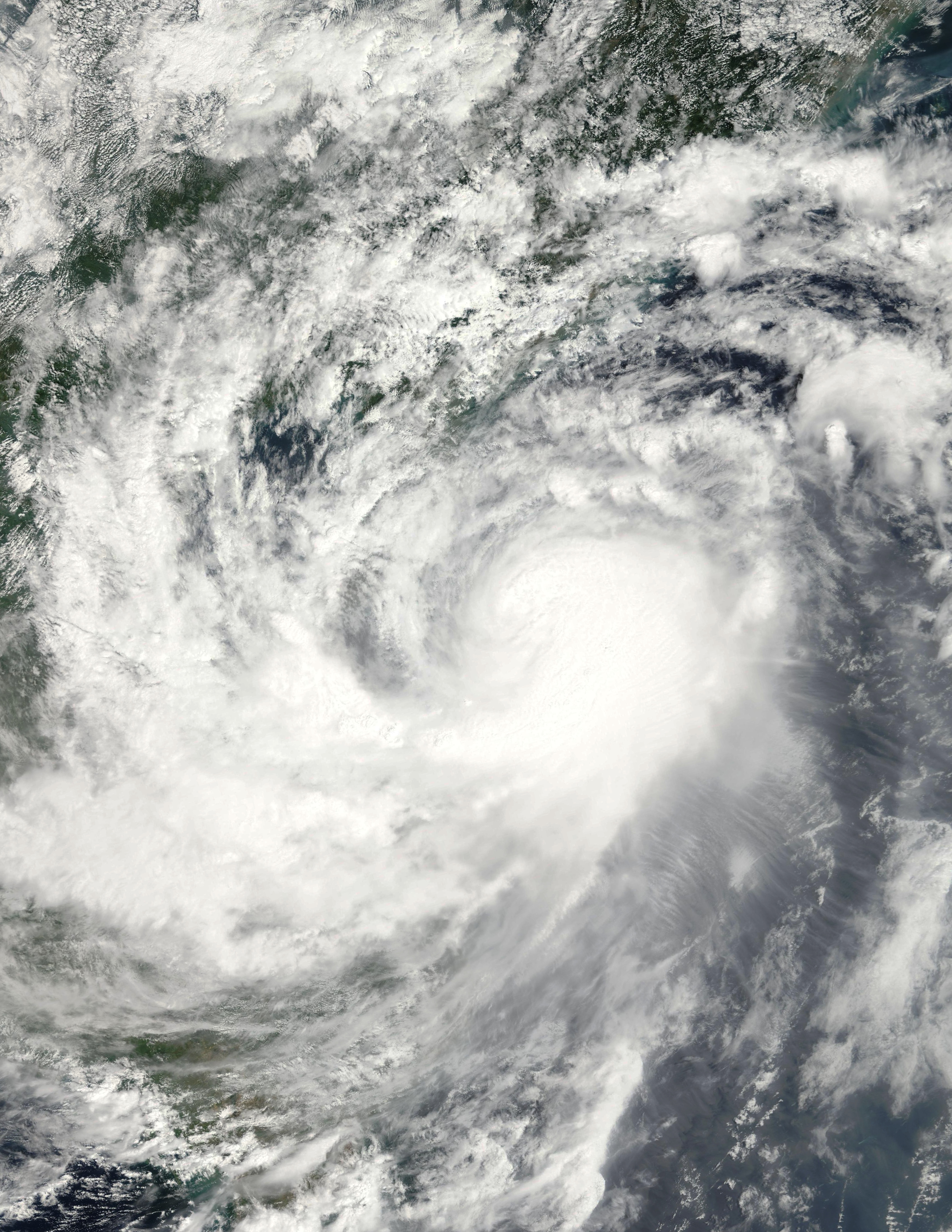 Typhoon Lekima at peak intensity in the South China Sea on October 2, 2007